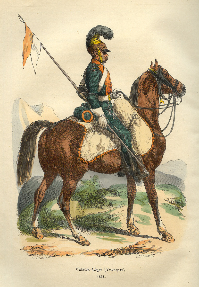 French Light horse lancer from the Grande Armée. From book of P.-M. Laurent de L`Ardeche «Histoire de Napoleon», 1843